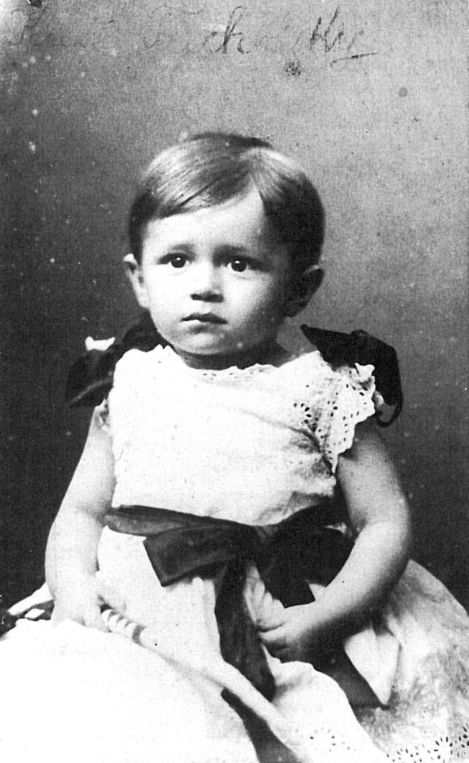 the German author Kurt Tucholsky